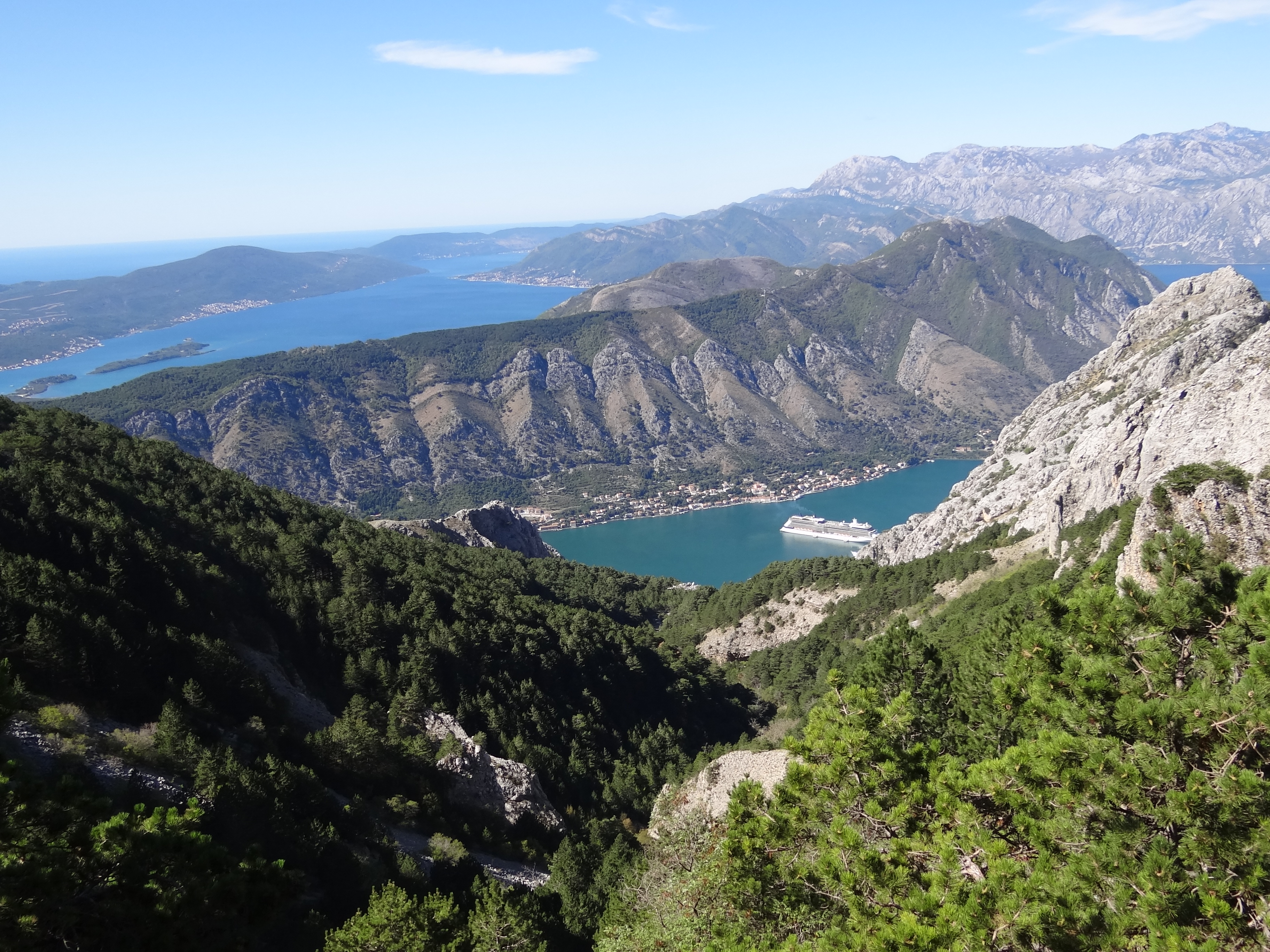 View over Bay of Kotor - Montenegro - 01